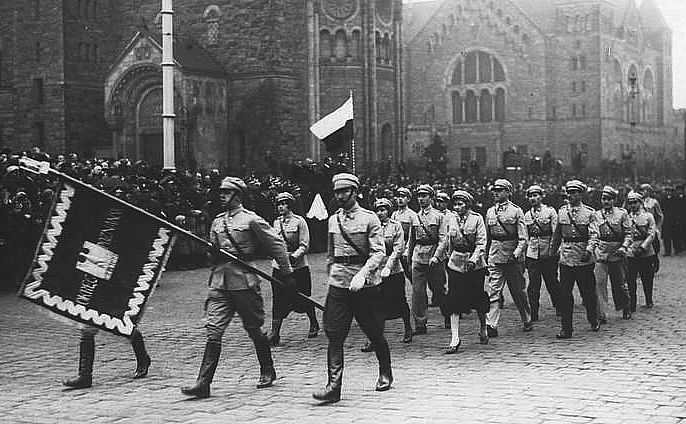 Parade of Legion Młodych in Poznań in 1933